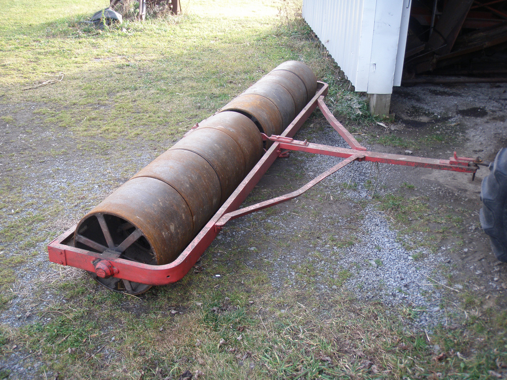 A 12 foot smooth roller